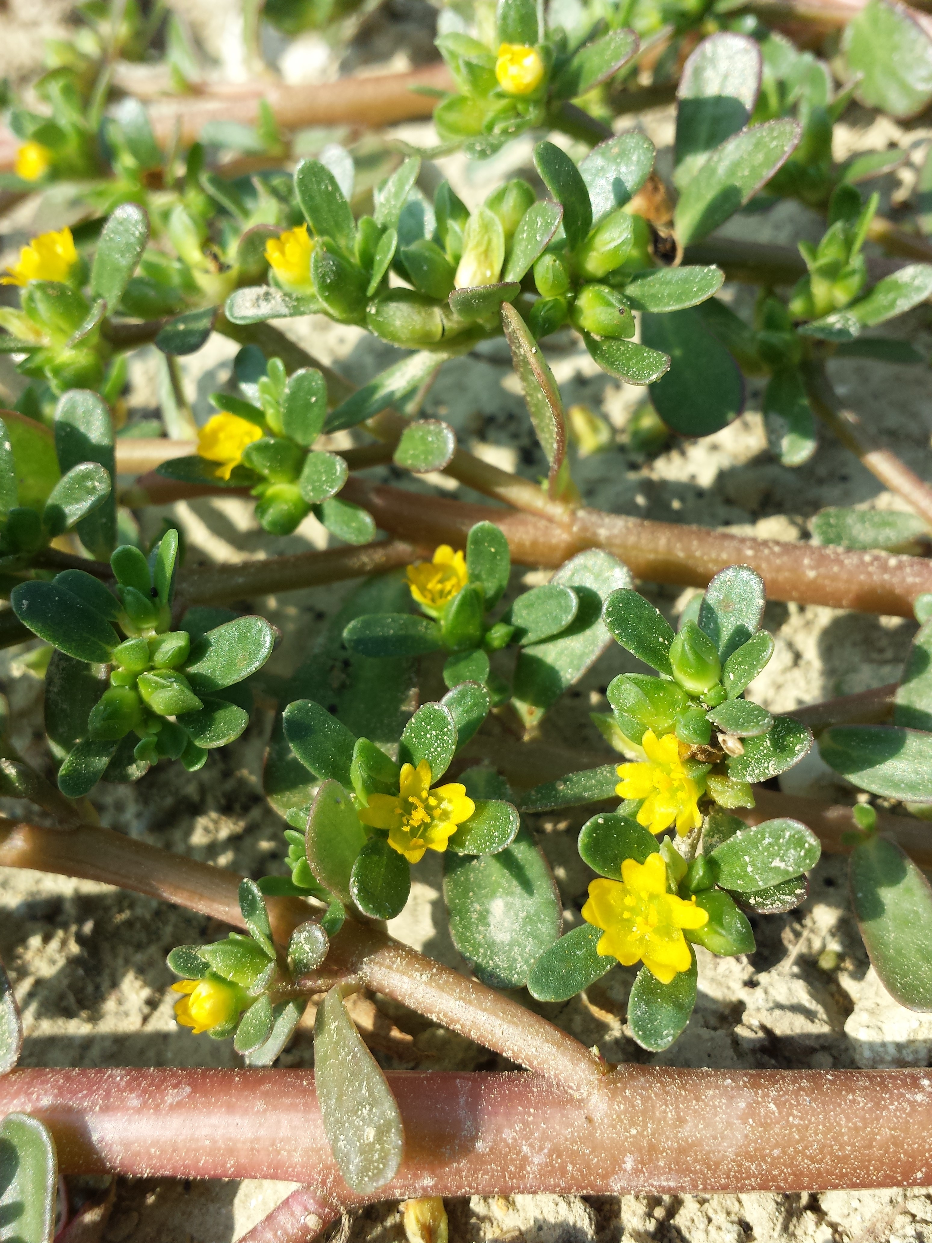 Inflorescence/infructescence Taxonym: Portulaca oleracea ss Fischer et al. EfÖLS 2008 ISBN 978-3-85474-187-9 Location: dump SW Schleinbach, district Mistelbach, Lower Austria - ca. 275 m a.s.l. Habitat: dump